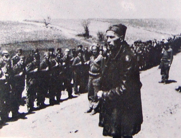 Forming of III Macedonian Assault Brigade, February 26, 1944 in the village Zhegljane Kumanovo. This media file is produced by Wikipedian in Residence in Category:Wikipedian in Residence at DARM in 2016.